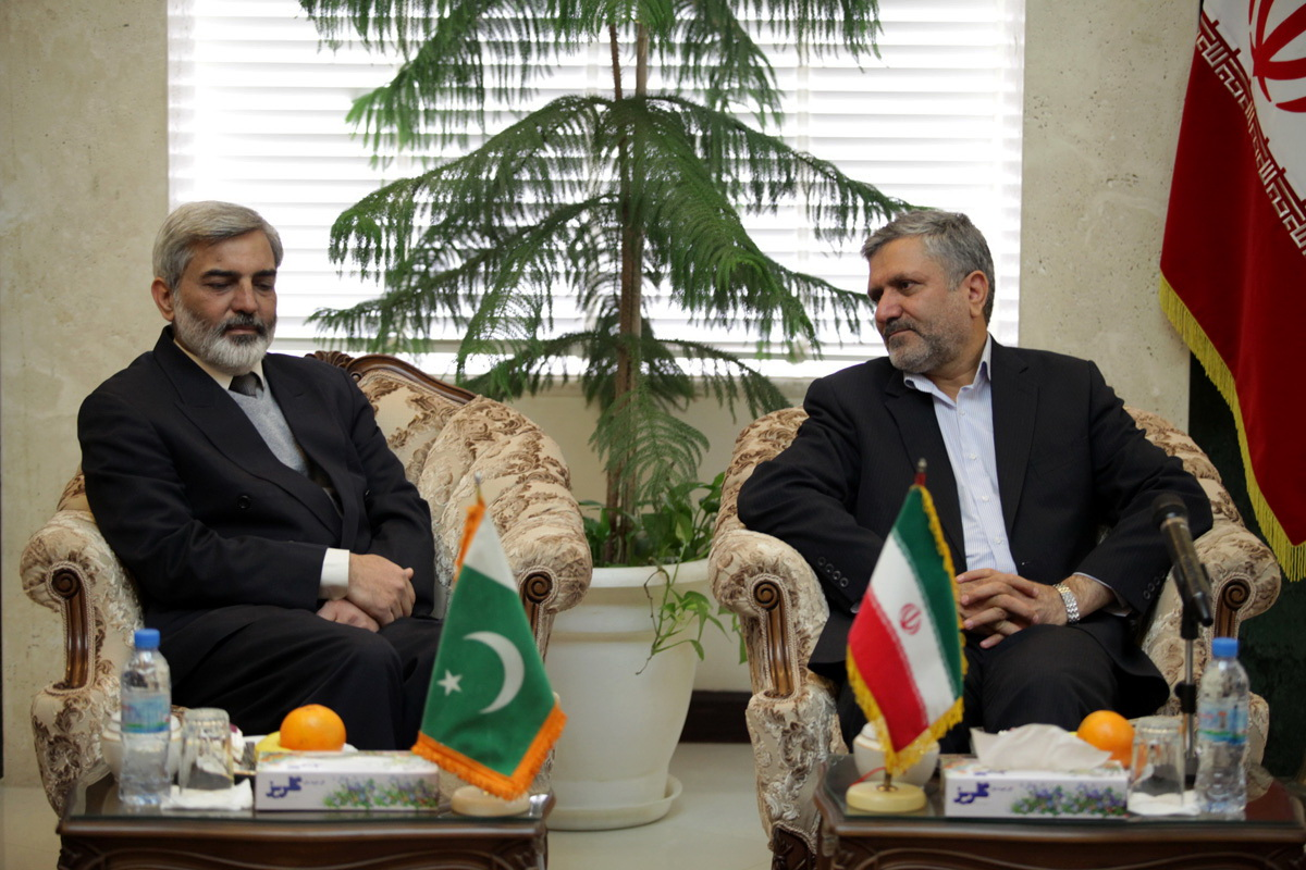 Pakistan Consul General met with the Mayor of Mashhad - Seyyed Sowlat Mortazavi and Qazi Habib ul-Rahman 1